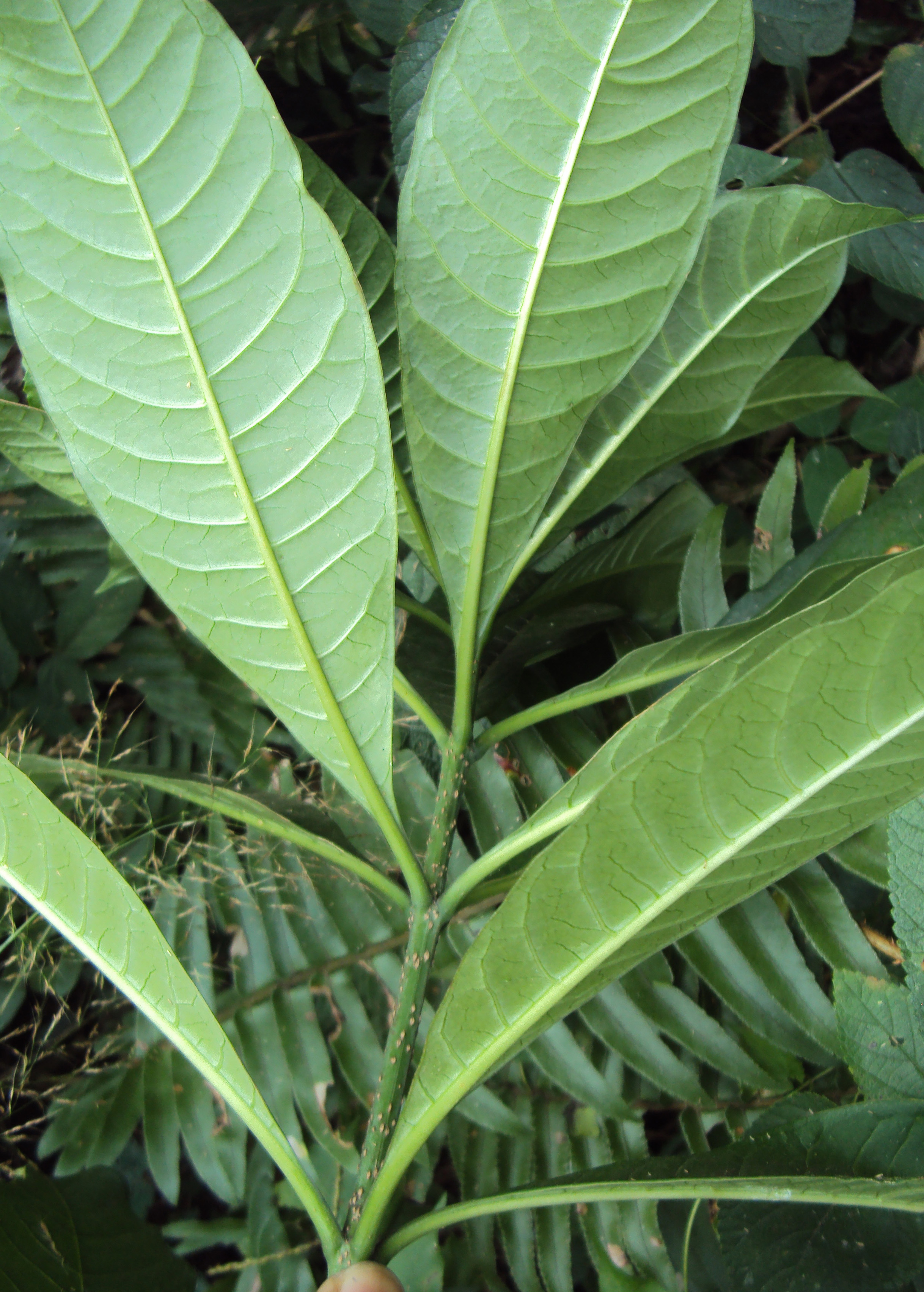 Rauvolfia verticillata